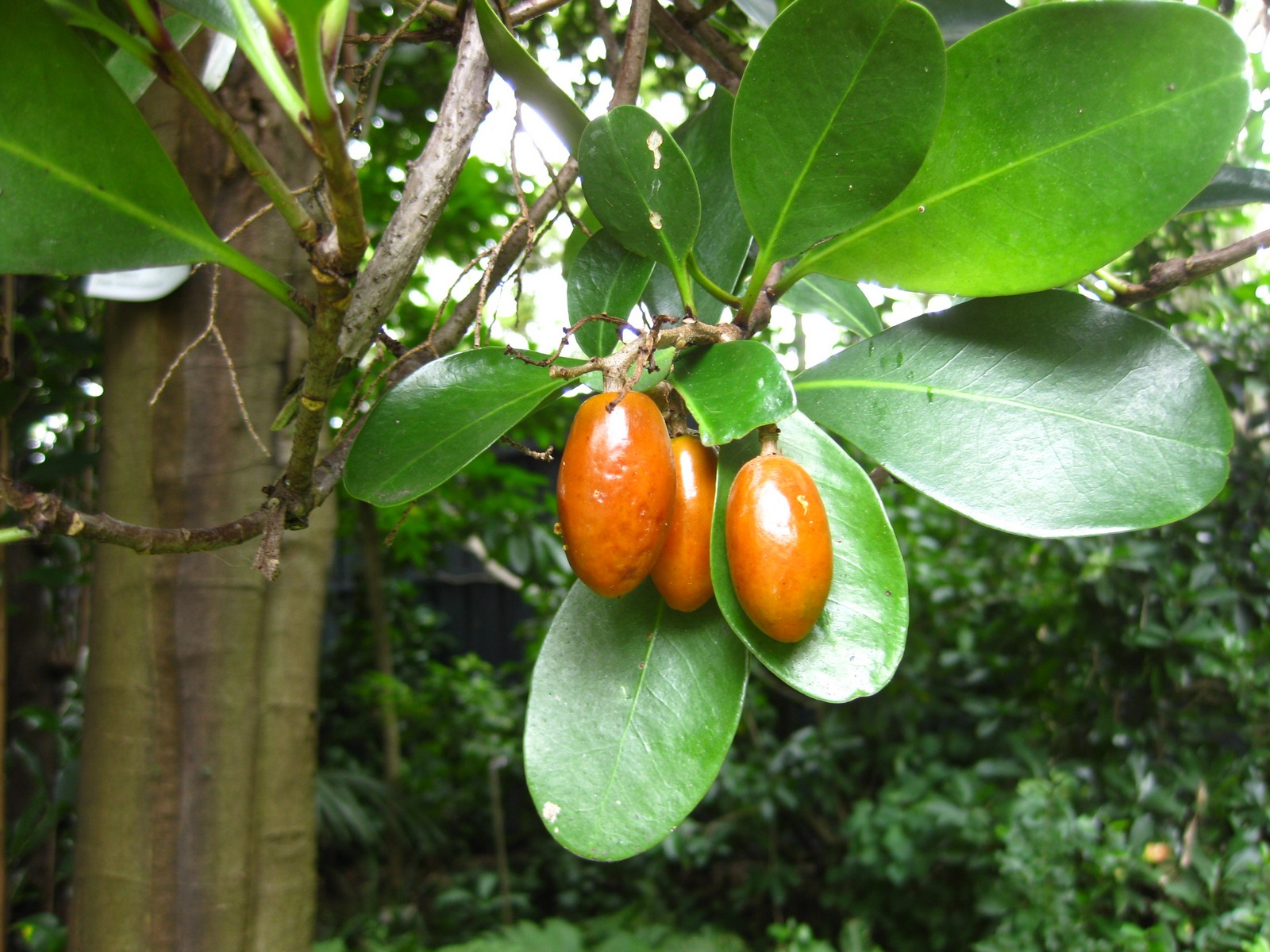 Photographed at the Royal Botanic Gardens Sydney (Australia) in January